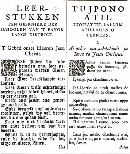 This is the cover of a book about Articles on Christian Instruction in Dutch and the Favorlang Language, written by Jacobus Vertrecht in 1650. It was printed in 1880